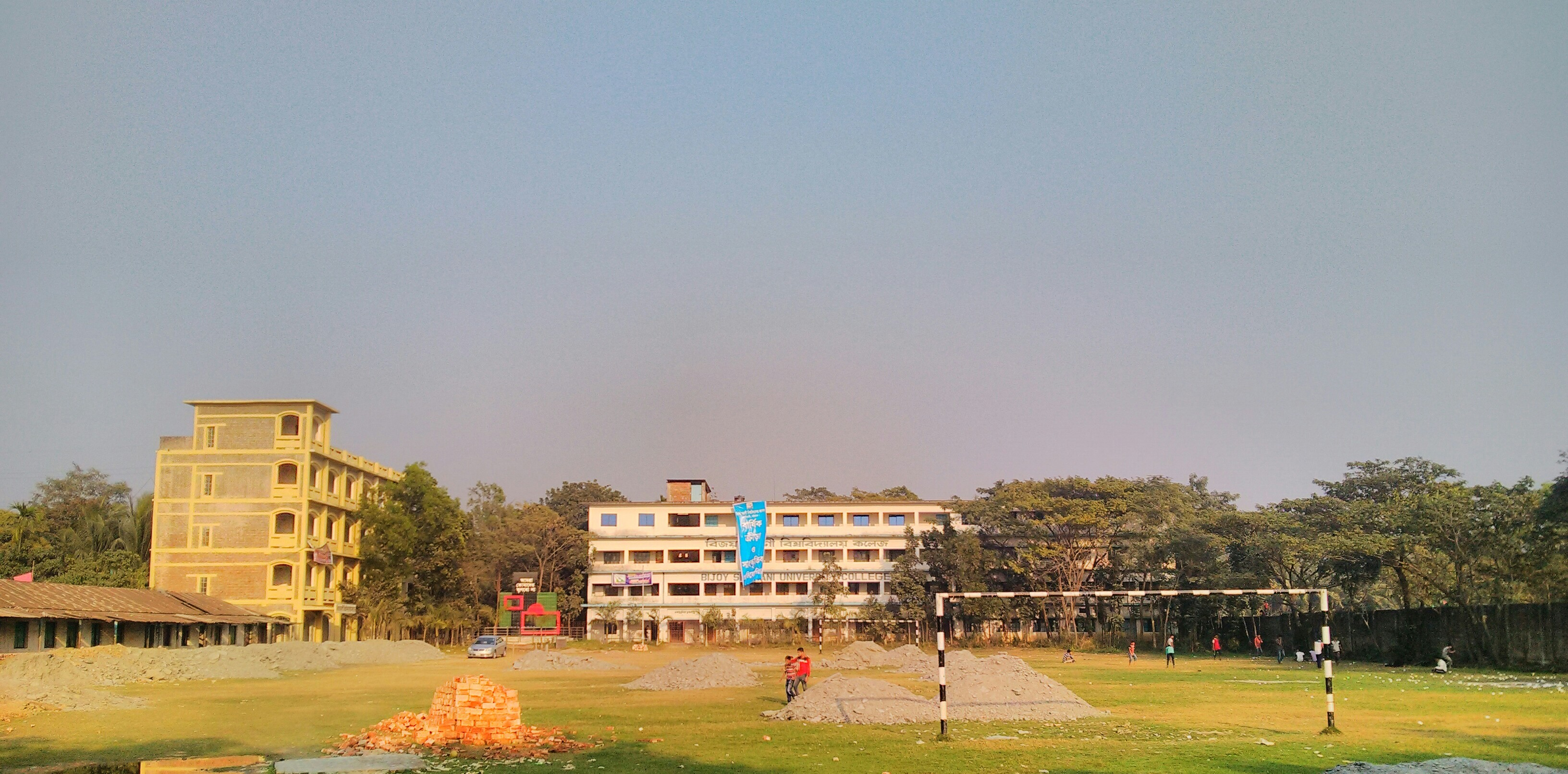 This is the inside view of the Bijoy Smarani College.